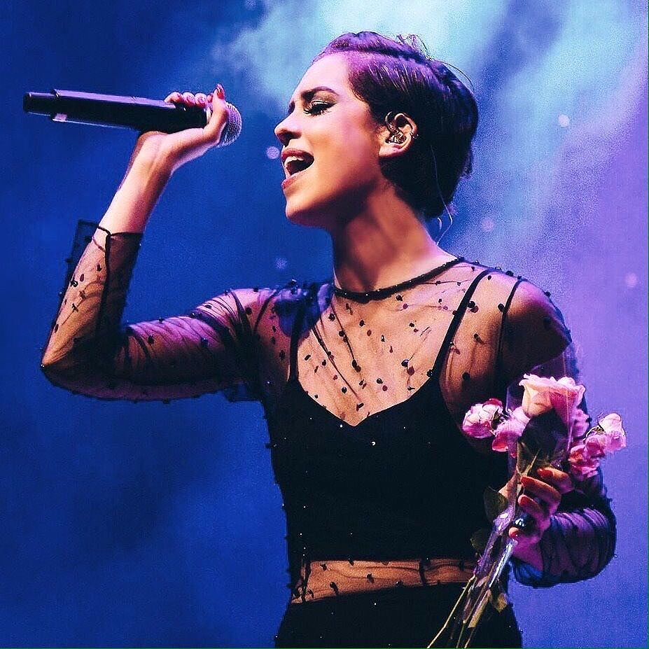 This is my own work. I took this photo during a concert of the singer Sophia Abrahão on October 4, 2016, in São Paulo, Brazil.